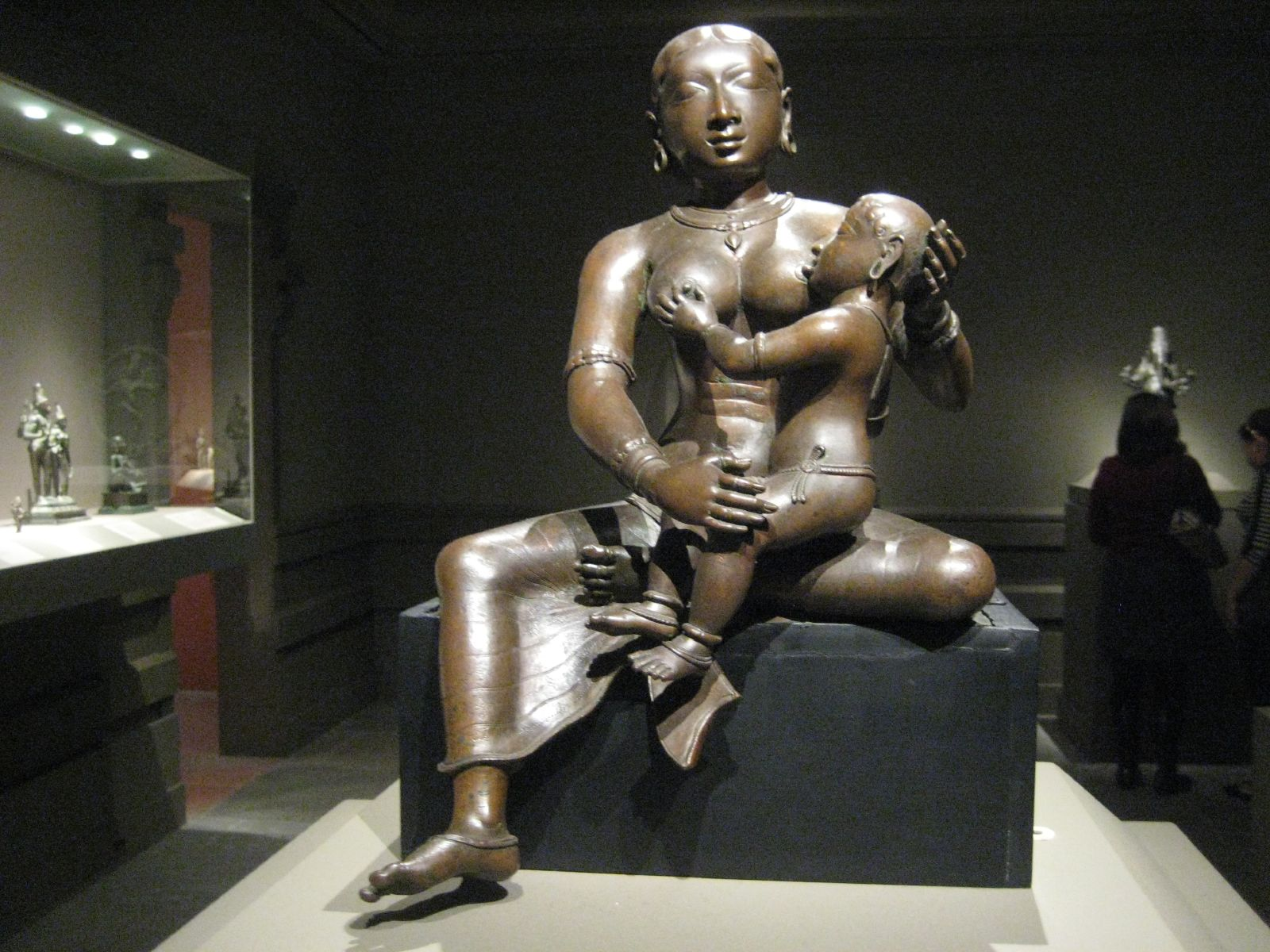 India (Tamil Nadu, Pudukkottai and Tanjavur districts) Chola period Early 12th century Copper alloy Item number: 1982.220.8